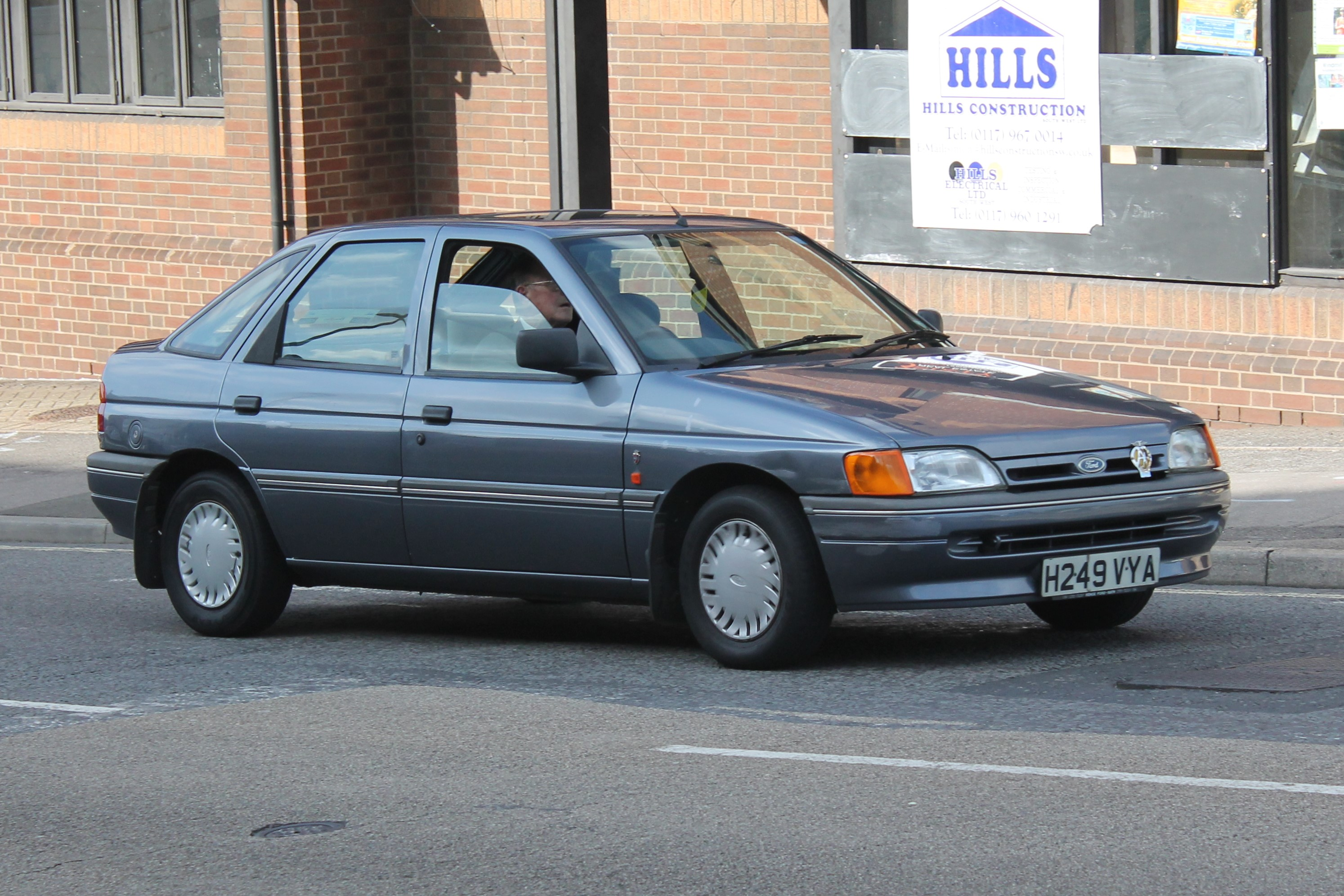 These Mark V pre-facelift Ford Escorts are darned hard to spot nowadays. I see way more of the Mk IVs or the facelifted models. A shame, as I actually quite like these. I don't often photograph people driving cars, however I couldn't really ignore this one... It looks remarkably original and well cared for- a true credit to its owner. The vehicle details for H249 VYA are: Date of Liability 01 02 2014 Date of First Registration 06 02 1991 Year of Manufacture 1991 Cylinder Capacity (cc) 1392cc CO₂ Emissions Not Available Fuel Type PETROL Export Marker N Vehicle Status Licence Not Due Vehicle Colour GREY Vehicle Type Approval Not Available Vehicle Excise Duty rate for vehicle 6 Months Rate £77.00 12 Months Rate £140.00 An interesting combination having the second smallest engine, but the highest trim level (Ghia)?